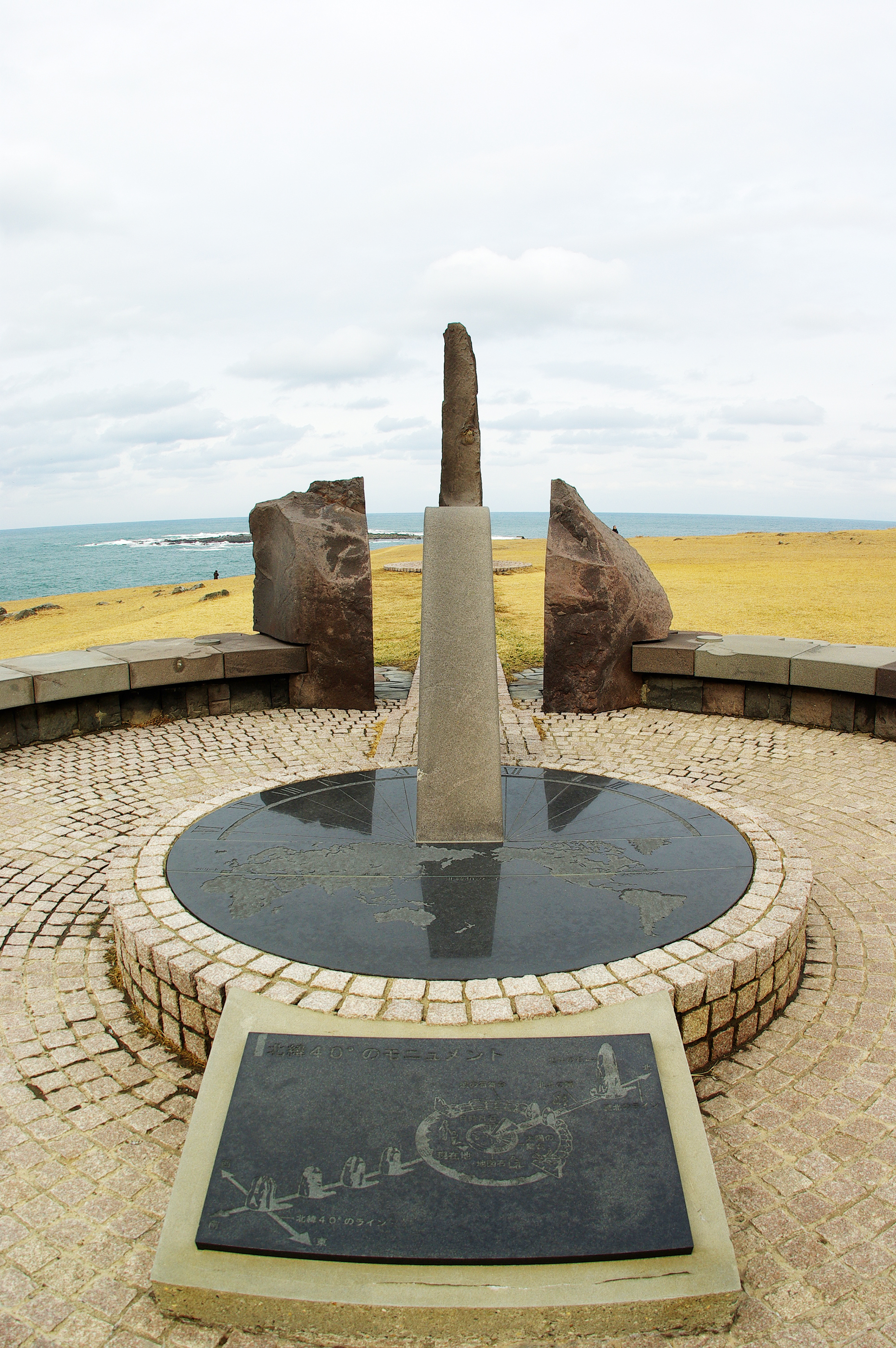 Monumento_of_North_latitude_40_degrees_at_Nyudouzaki.